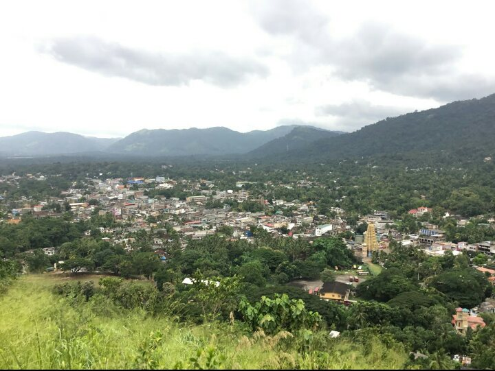 Panroma of matale city